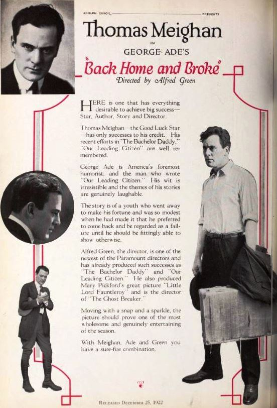 Advertisement for the American comedy film Back Home and Broke (1922) with Thomas Meighan, from the insert after page 10 of the May 27, 1922 Exhibitors Herald.